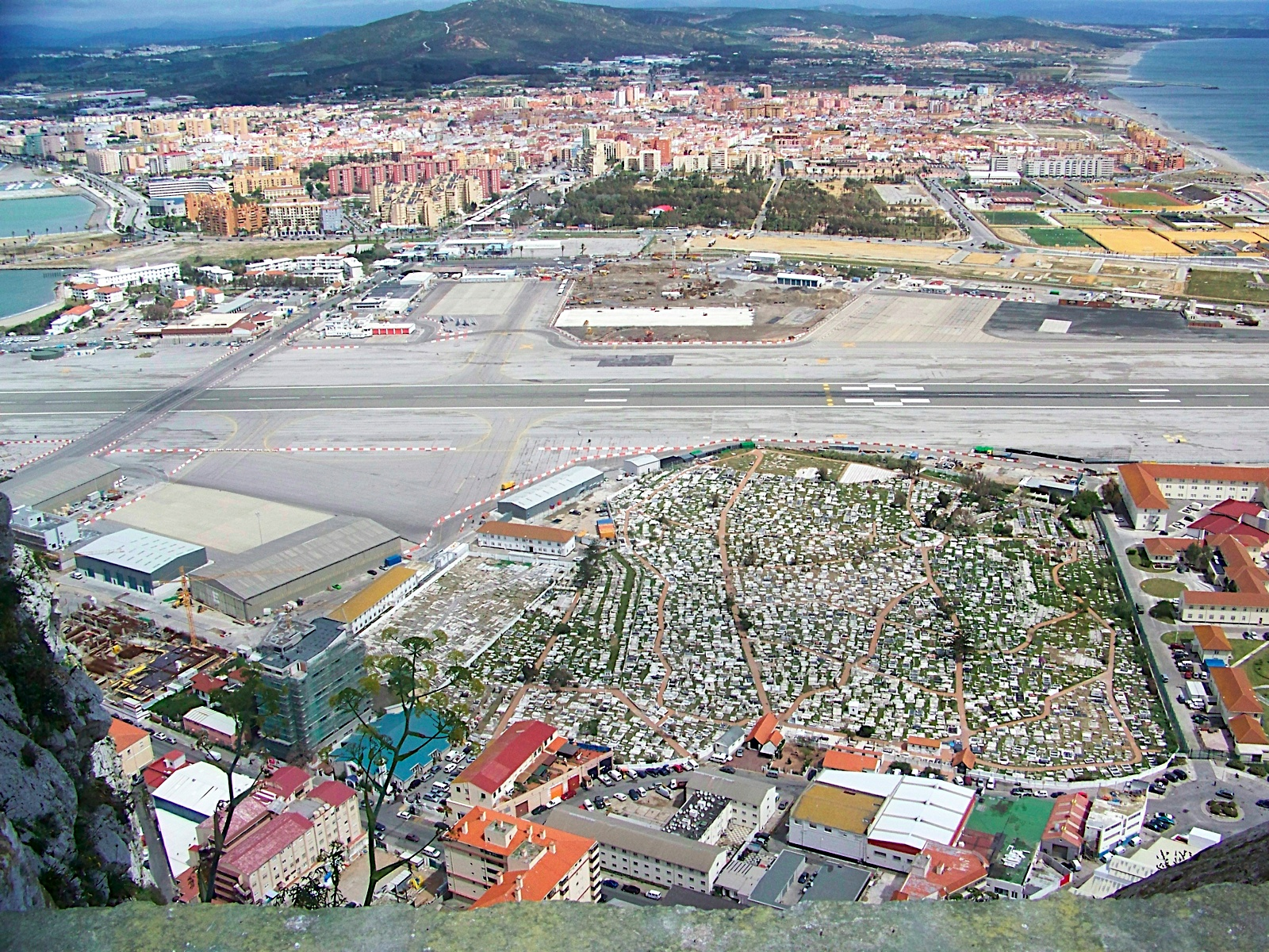 View of the isthmus that links the Rock of Gibraltar with mainland